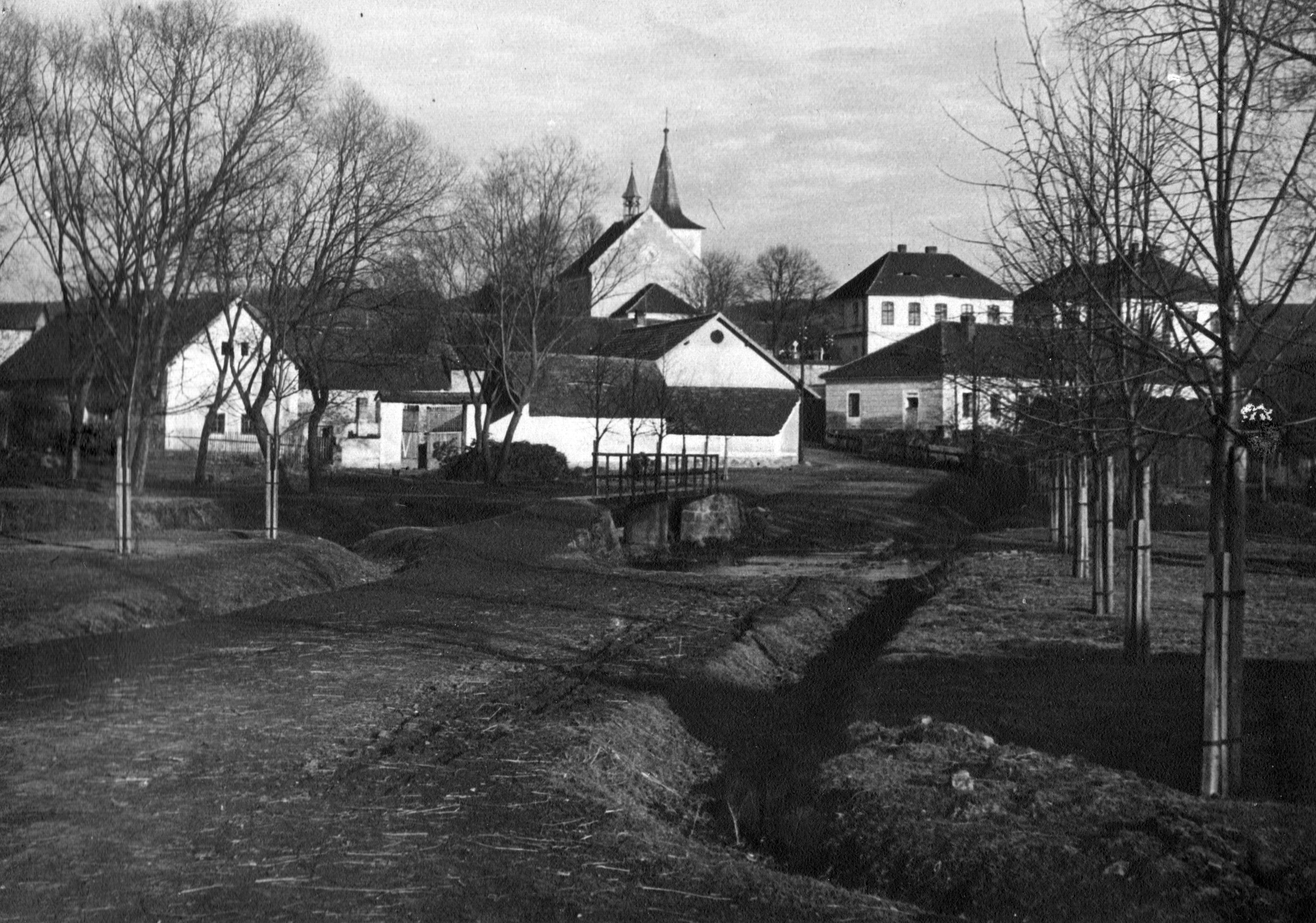 Václavice, Benešov district